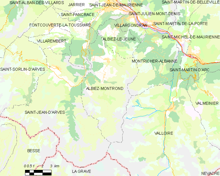 Map of French municipality